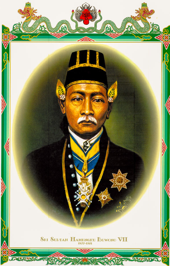 Portrait of Sultan Hamengkubowono VII